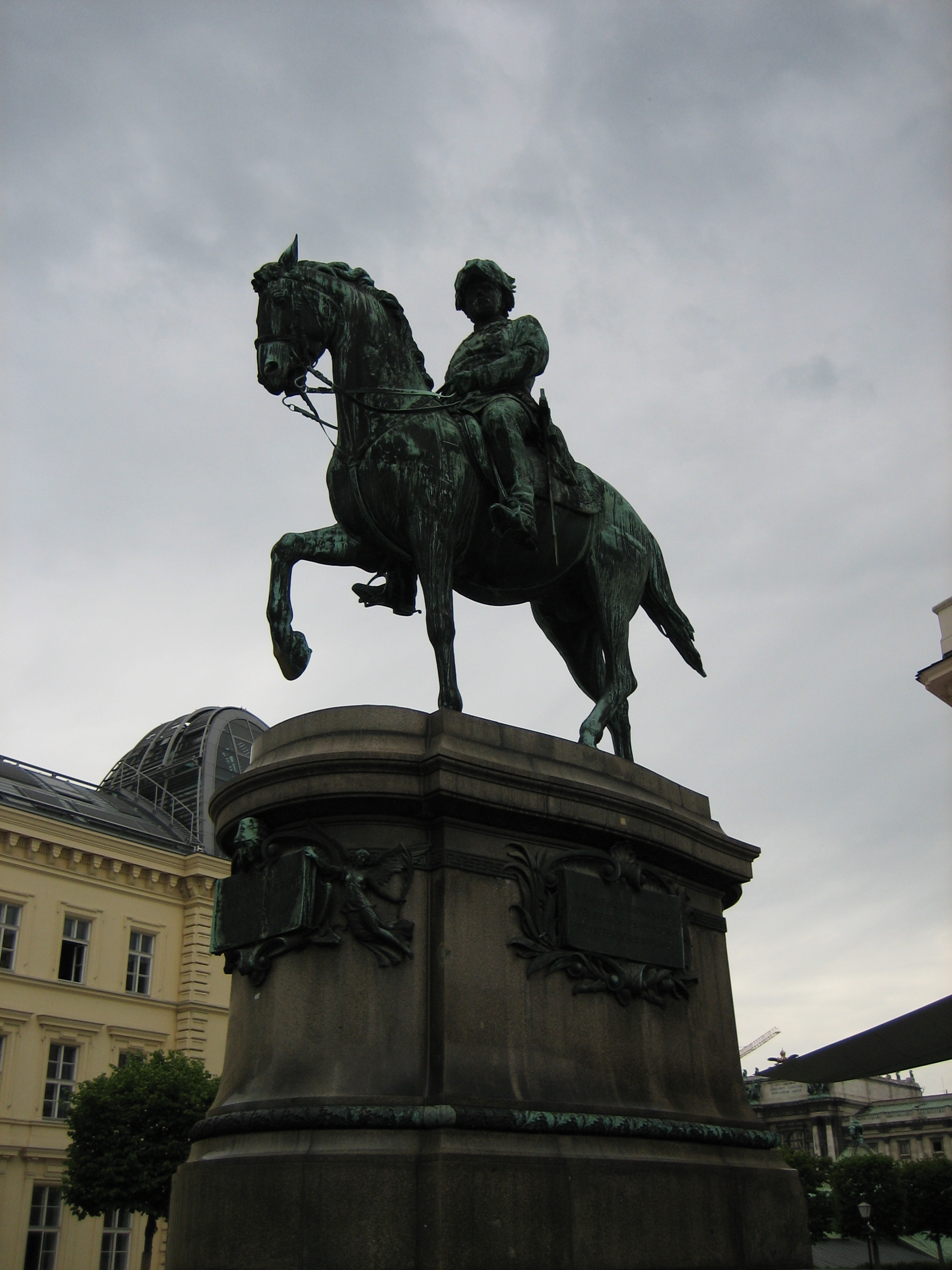 An equestrian statue of Archduke Albert, Duke of Teschen which stands outside the Albertina in Vienna